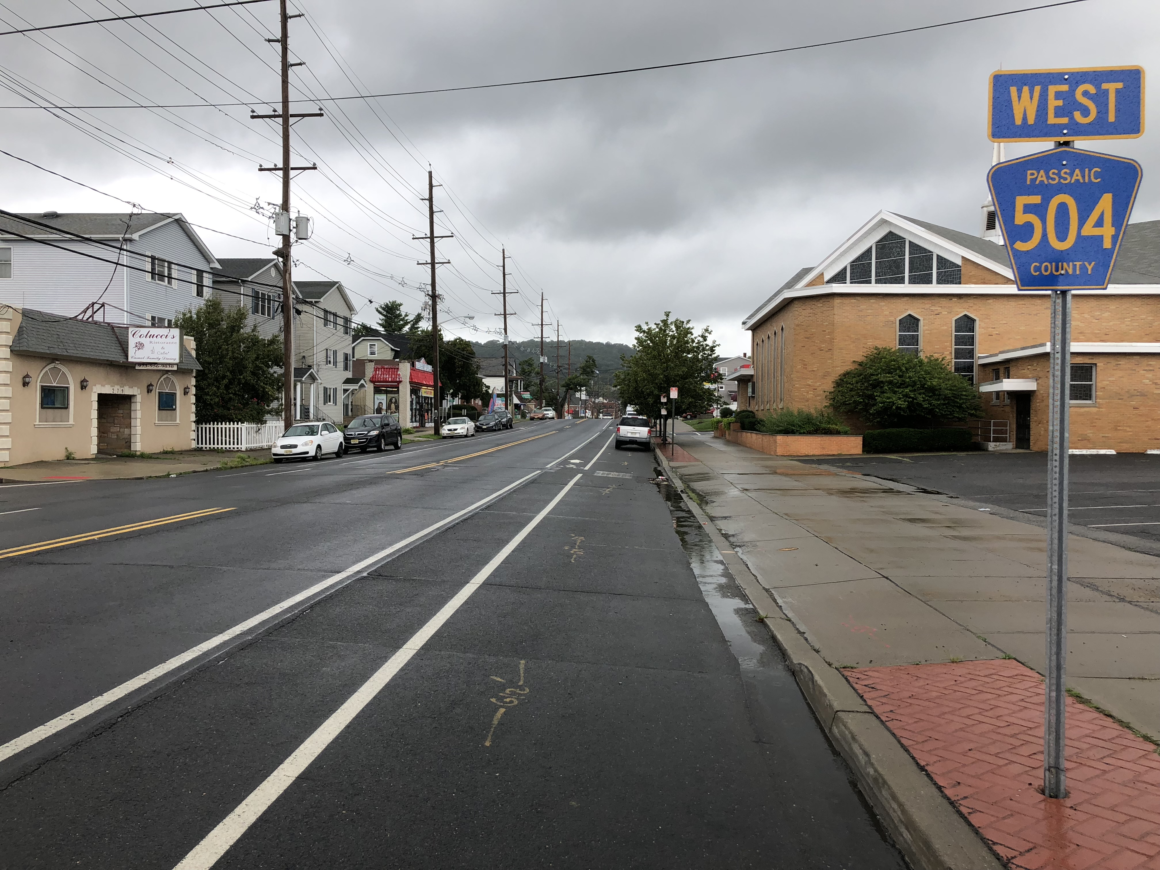 View west along Passaic County Route 504 (Haledon Avenue) at 13th Street on the border of Prospect Park and Haledon in Passaic County, New Jersey